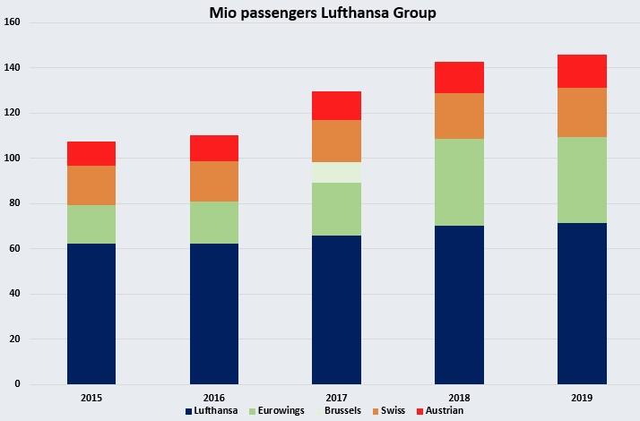 Lufthansa Group passengers statistics